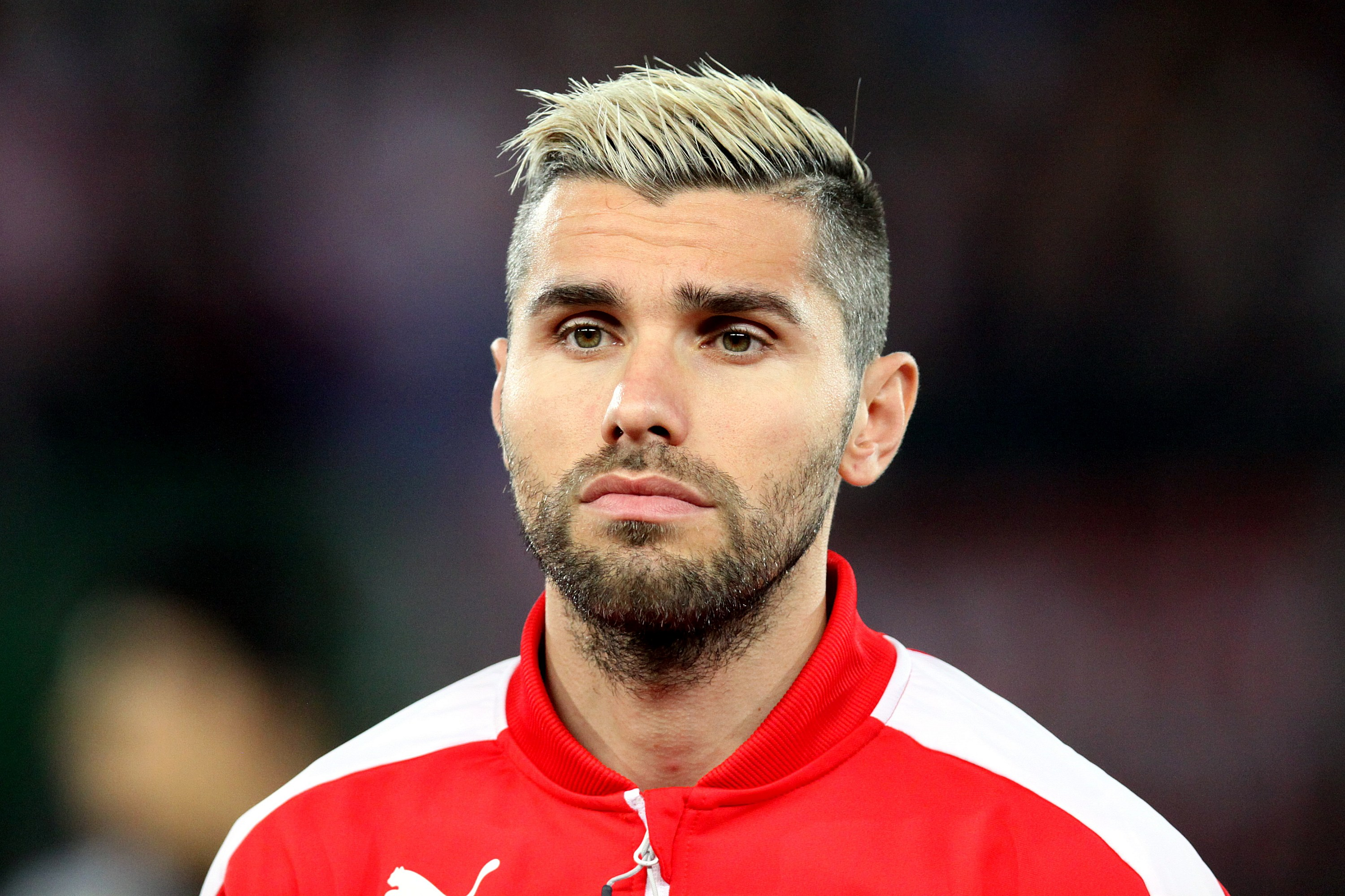 Friendly match – Austria (red shirts) vs. Switzerland (white shirts) 1-2 (1-2) – 2015-11-17 in Vienna, Ernst-Happel-Stadion – The photo shows Valon Behrami (Switzerland).